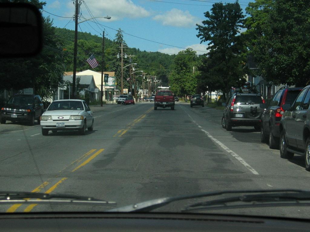 Driving through the VIllage of Wurtsboro, NY